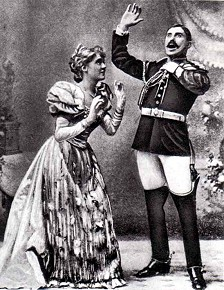 Photo of Nancy McIntosh and Charles Kenningham in the original production of Utopia Limited 1893.